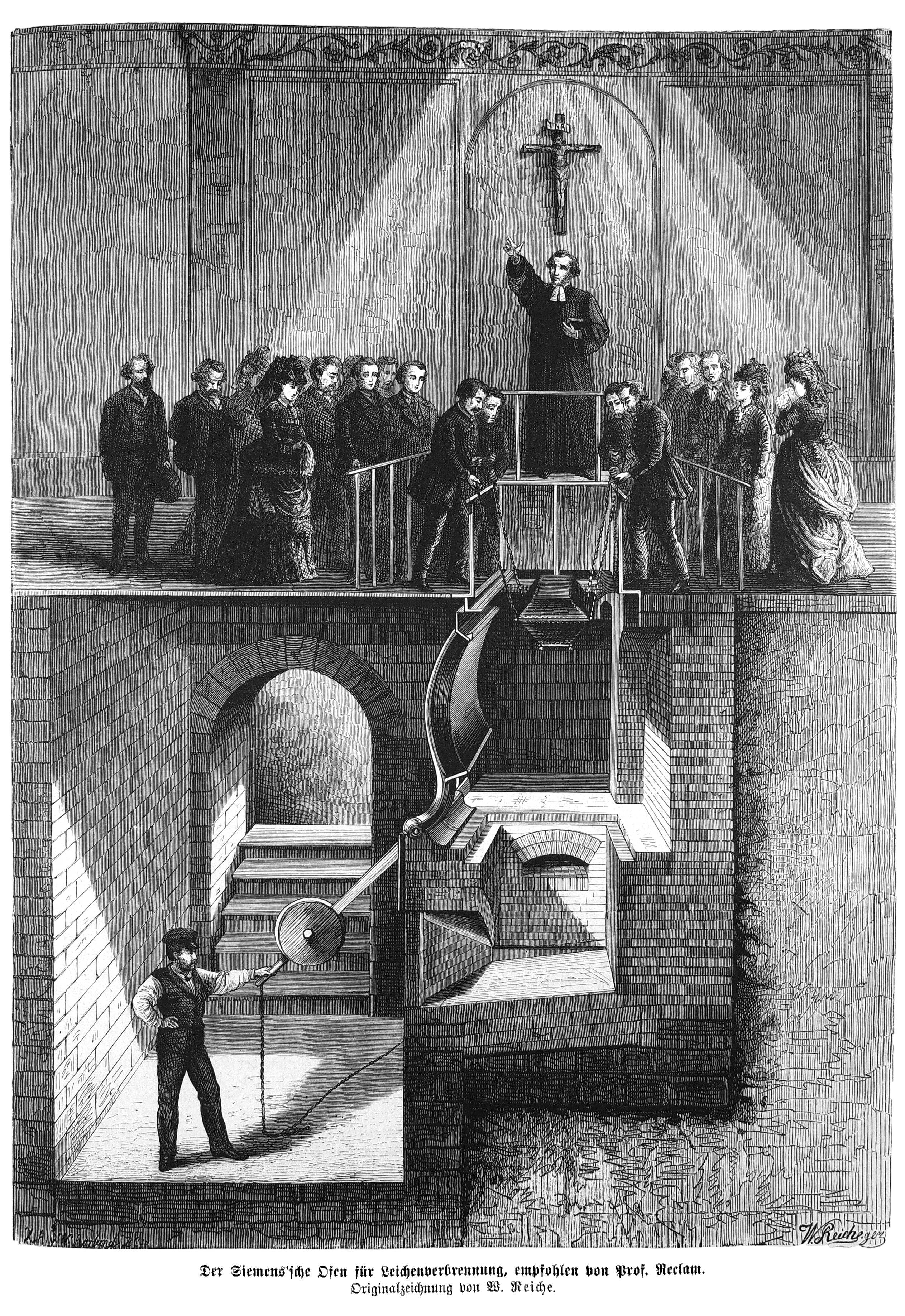 Image from page 311 of book Die Gartenlaube, 1874.